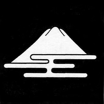 Crest of Aoki Daimyo